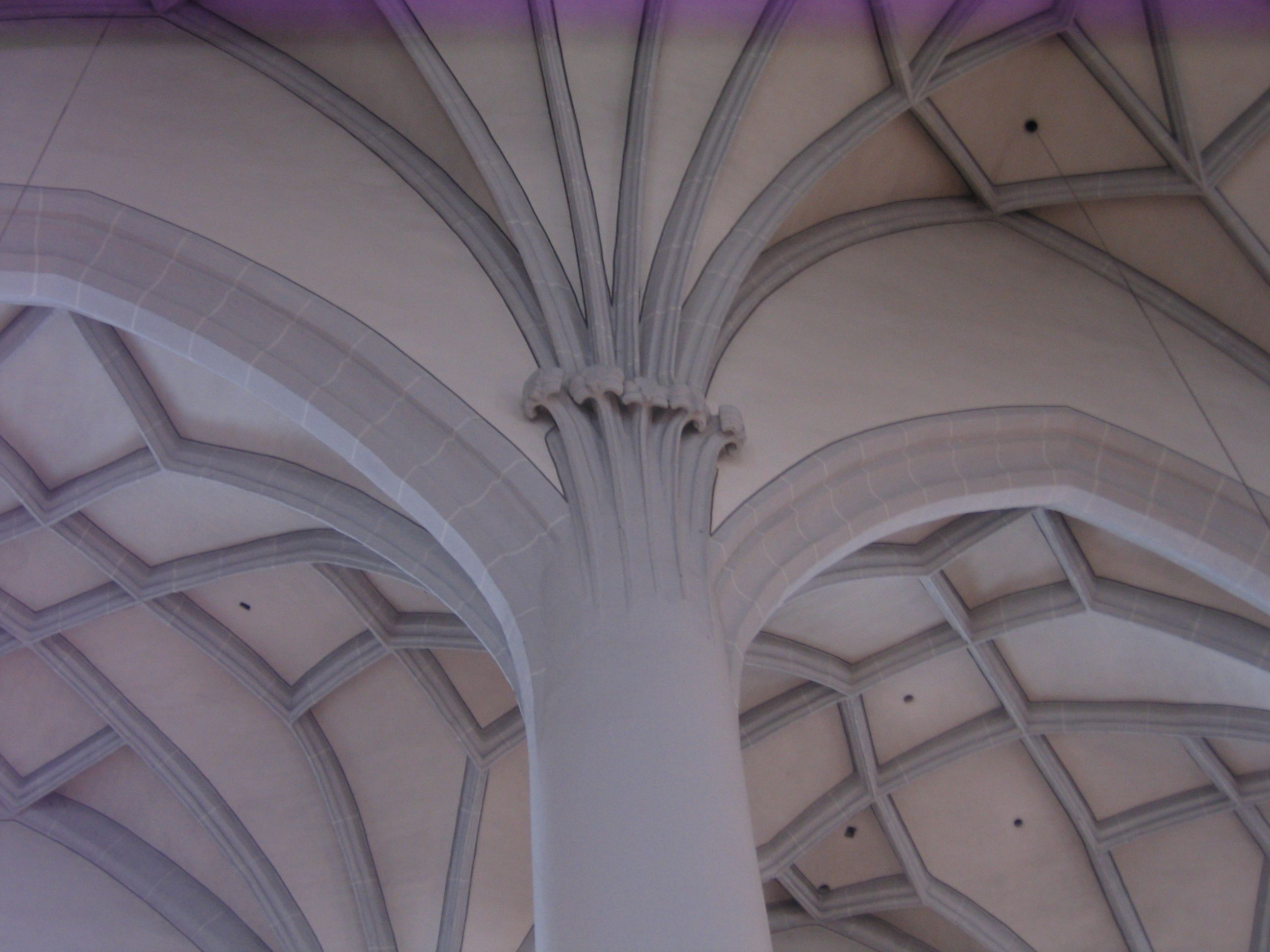 rc church Eggenfelden (Bavaria, Germany)